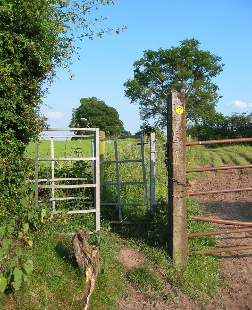 Gate on the Sandstone Trail, near Bickley. Photograph by T Chalcraft